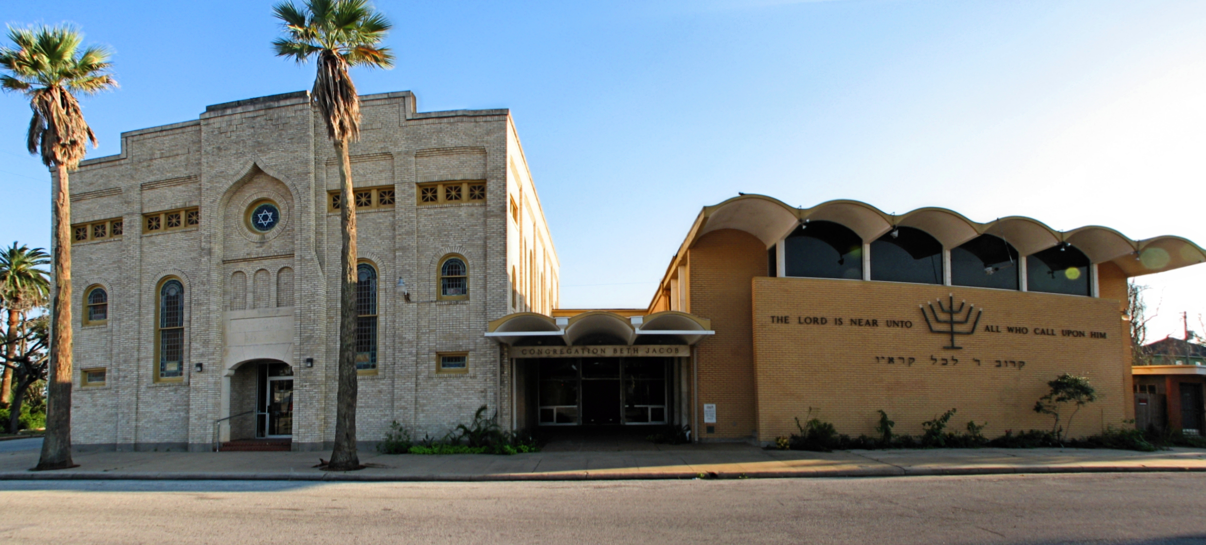 Temple Beth Jacob, a Conservative Jewish congregation in Galveston, Texas